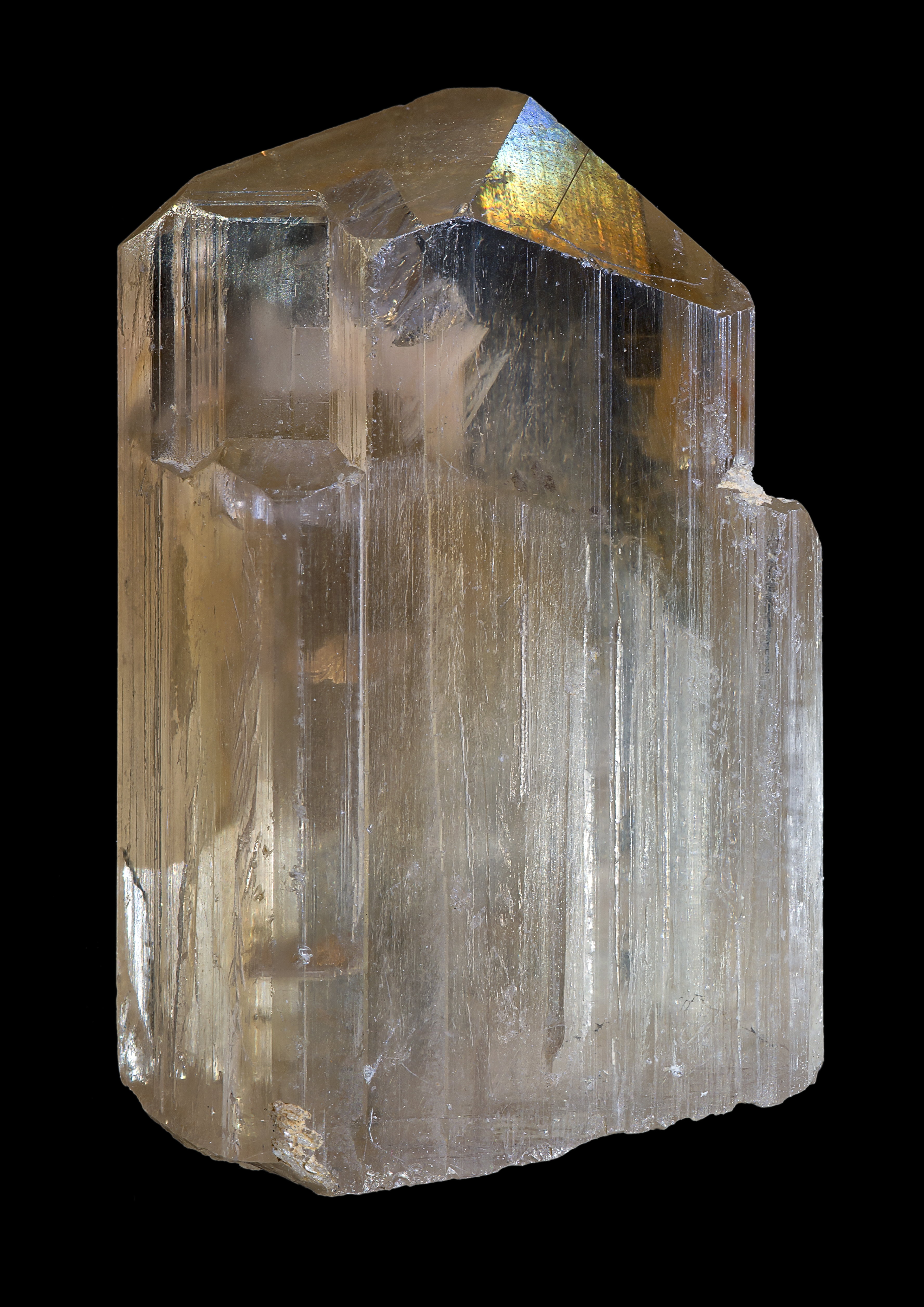 Cerussite Locality : Les Farges Mine, Ussel, Corrèze, Limousin, France Size : 2,75 x 1,76 x 0,76 cm